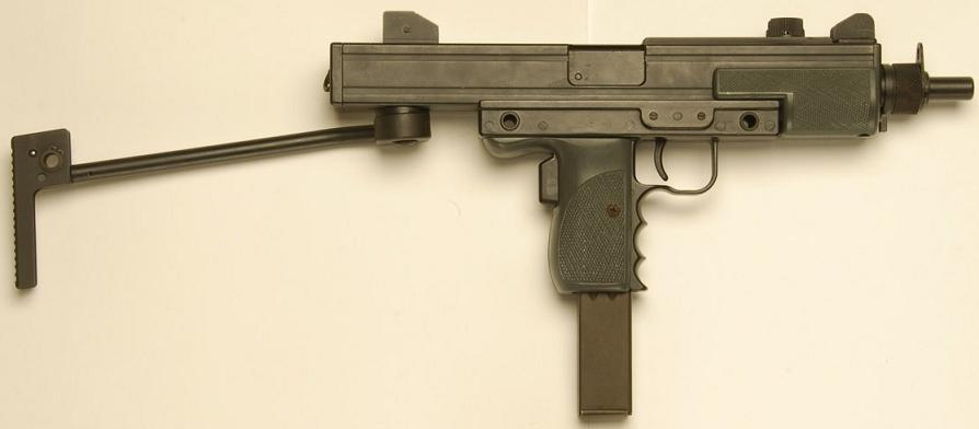 SOCIMI Type 821-SMG 9x19mm - Right side with stock unfolded